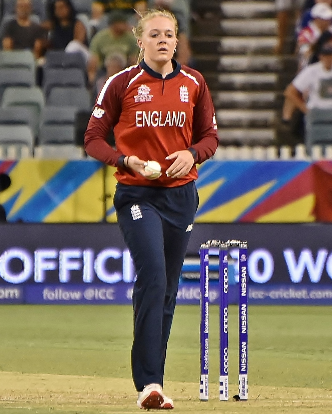 Sarah Glenn walking back to her mark while bowling for England against South Africa during their 2020 ICC Women's T20 World Cup match at the WACA Ground in Perth, Australia